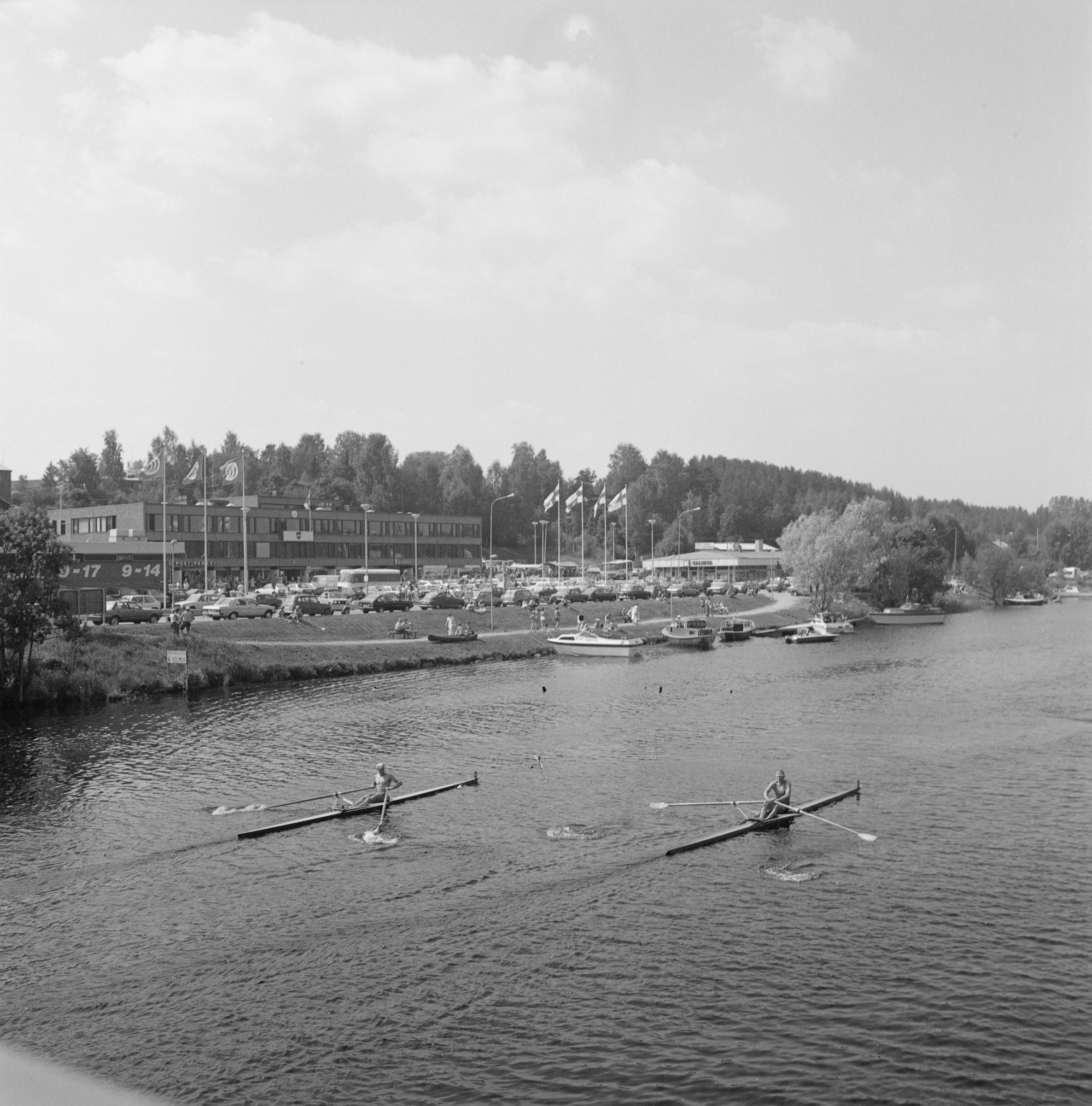 Sulkavan Suursoudut rowing competiton in 1982, Sulkava town centre in the background